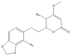 The structure of the eighth class of kavalactones, to be used on the Kavalactones page. Drawn in ChemDraw 10.0 by Yidele, July 2007.